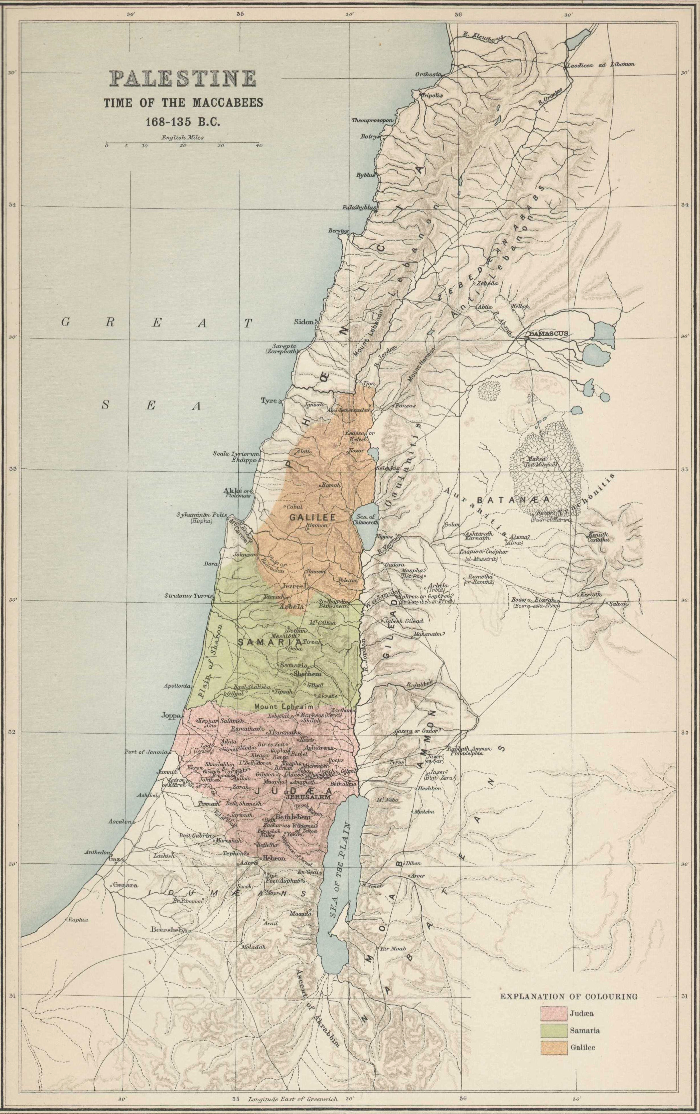 Palestine under the Maccabees (10th-century BCE). According to Atlas of the Historical Geography of the Holy Land by George Adam Smith in 1915